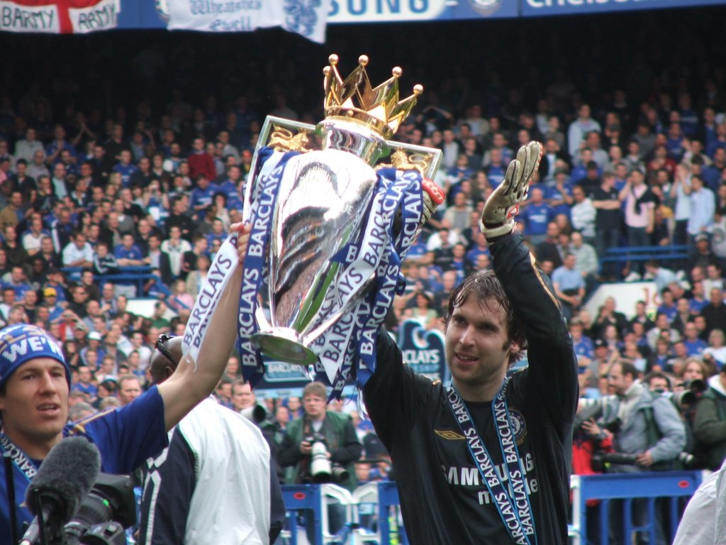 Back to back trophies for Chelsea